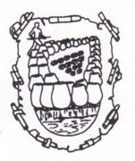 Coat of arms of Socoltenango, Chiapas